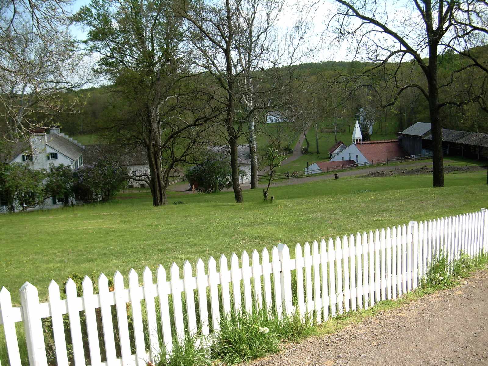 Willjay, taken by me. Hopewell Village National Historic Site, Elverson, PA in 2008.